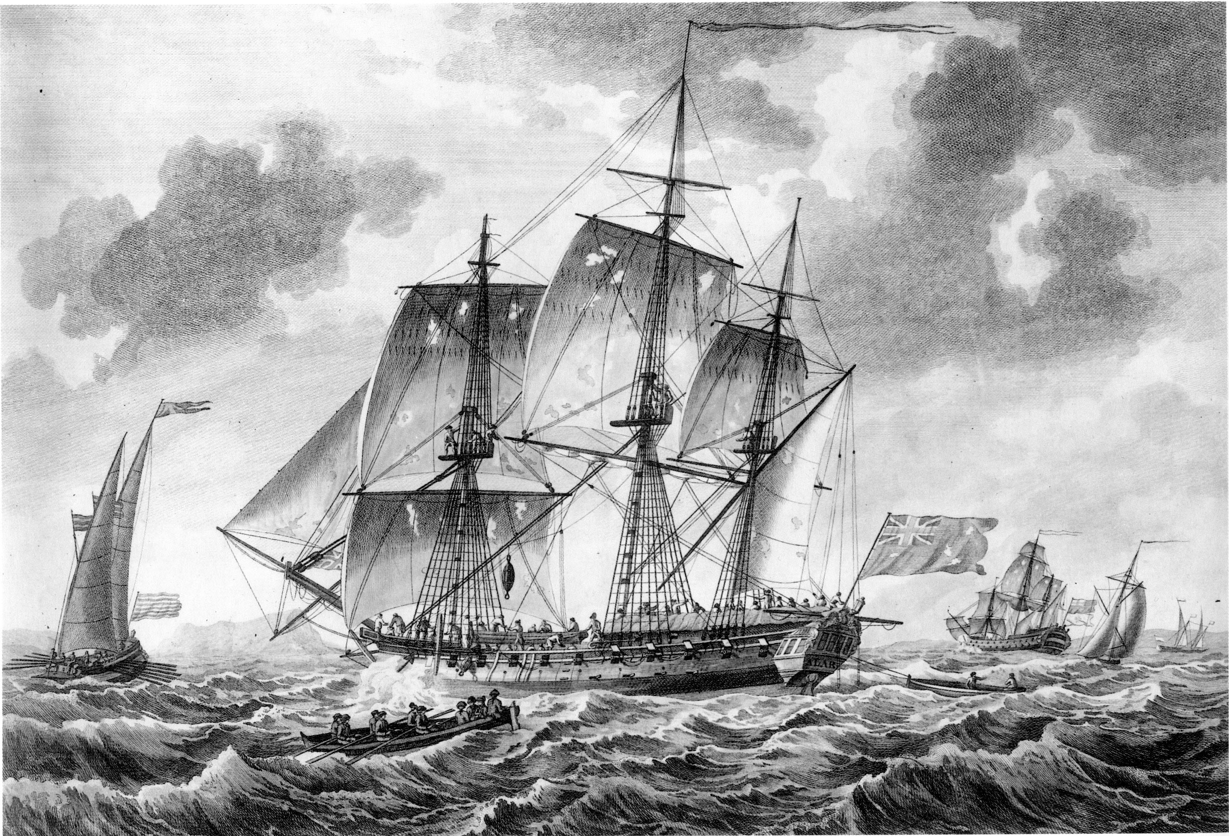 His Majesty's Ship the Alarm, a fifth Rate... conducting a Spanish Prize into Gibraltar; etching